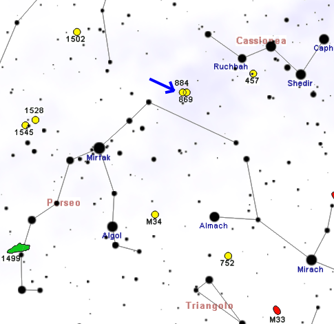 Double Cluster map